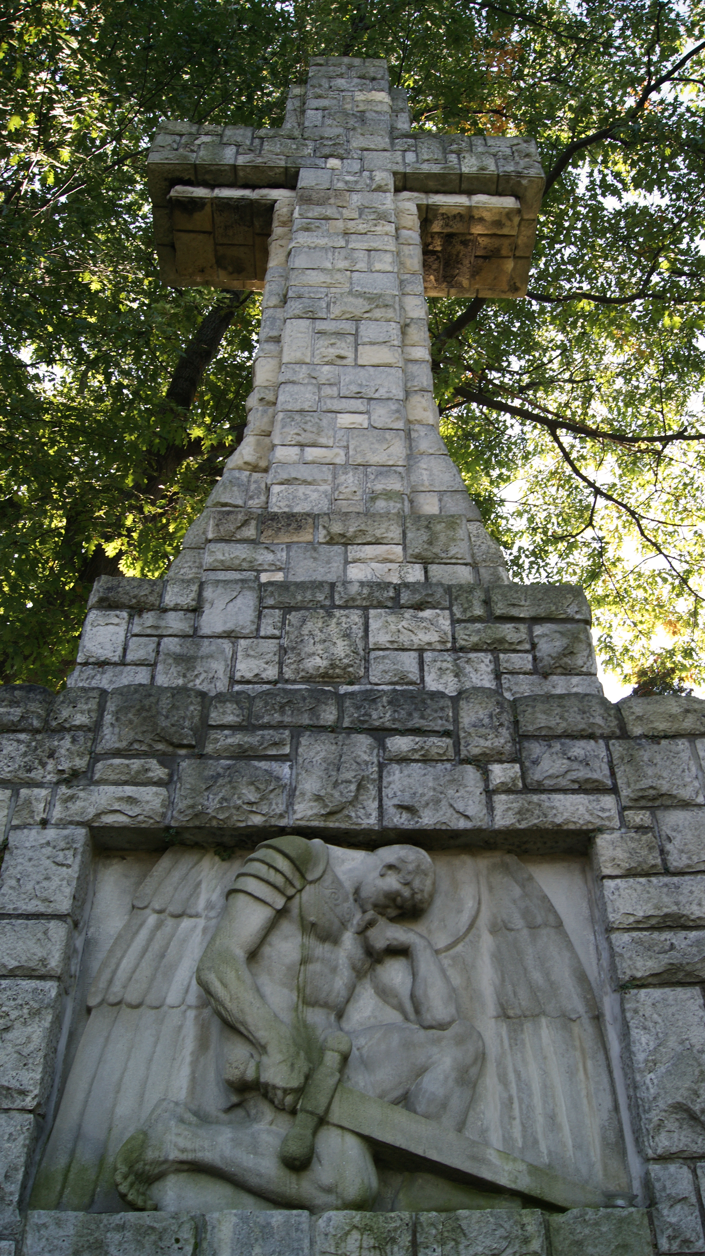 WWI, Military cemetery No. 314 Bochnia (monument), Poland